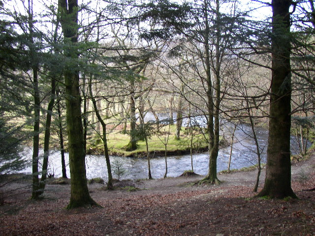 River Meander, Brackenthwaite. This view is from the path through Lanthwaite Wood, Brackenthwaite, and the meander is on the River Cocker.